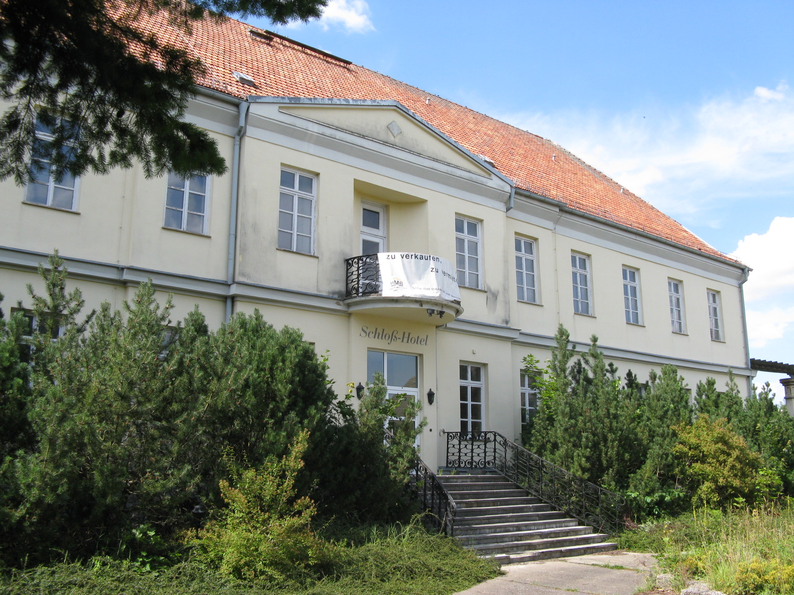 Gutshaus in Fincken, disctrict Mecklenburgische Seenplatte, Mecklenburg-Vorpommern, Germany